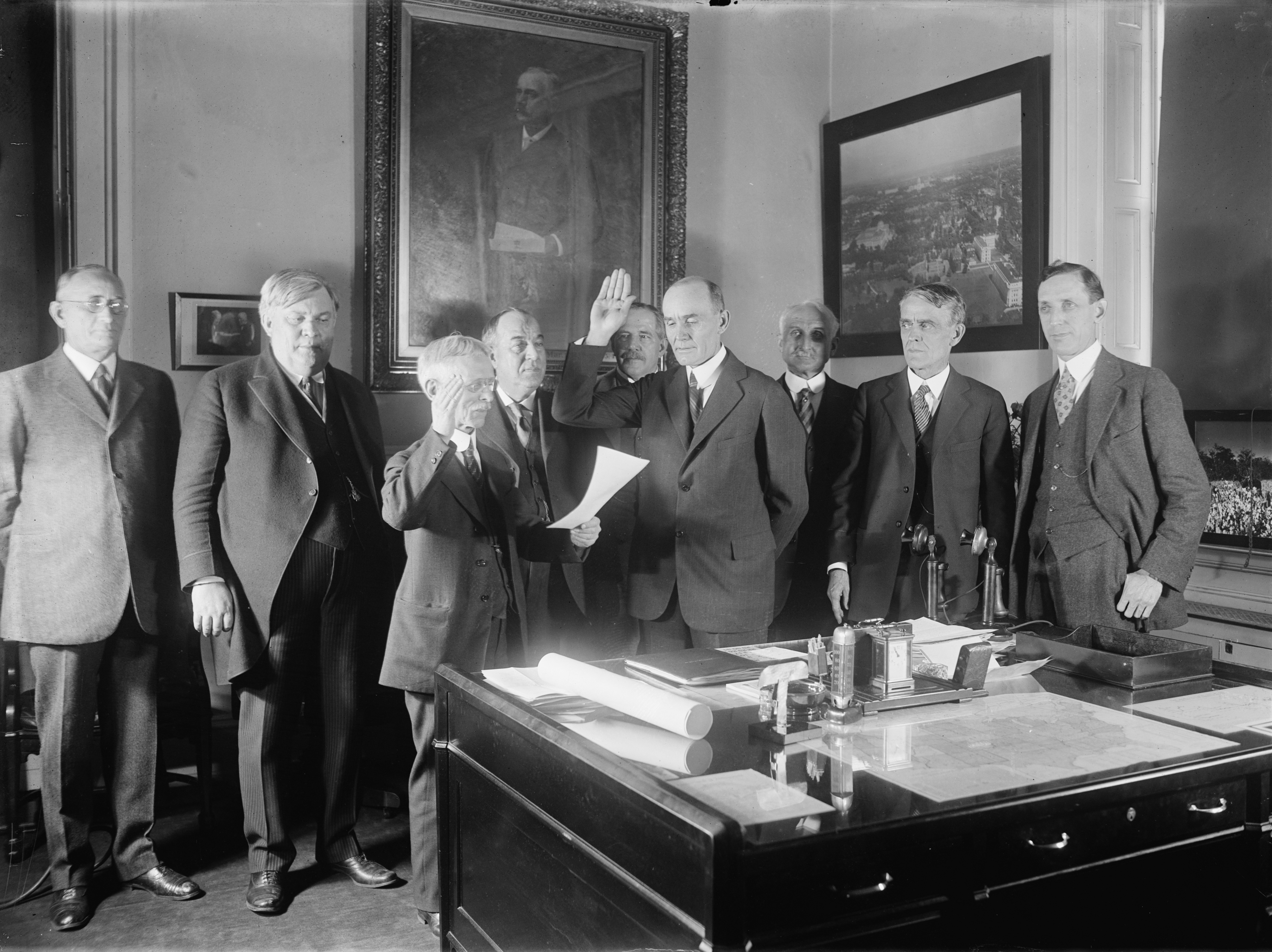 Swearing in of Wm. M. Jardine as Secty. of Ag., [3/5/25]